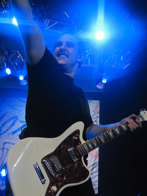 Zac Farro from Paramore with a Fender Jazzmaste on Honda Civic Tour.